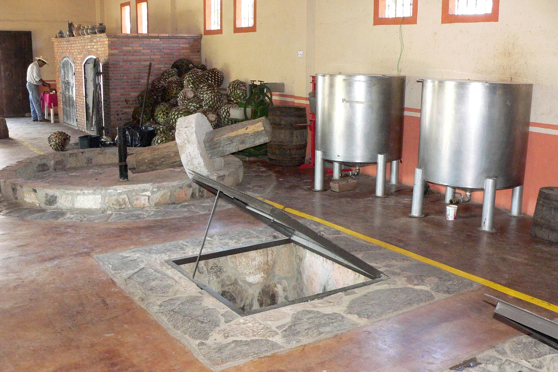 Photo of tequila facilities at Dona Engracia hacienda, Jalisco, Mexico